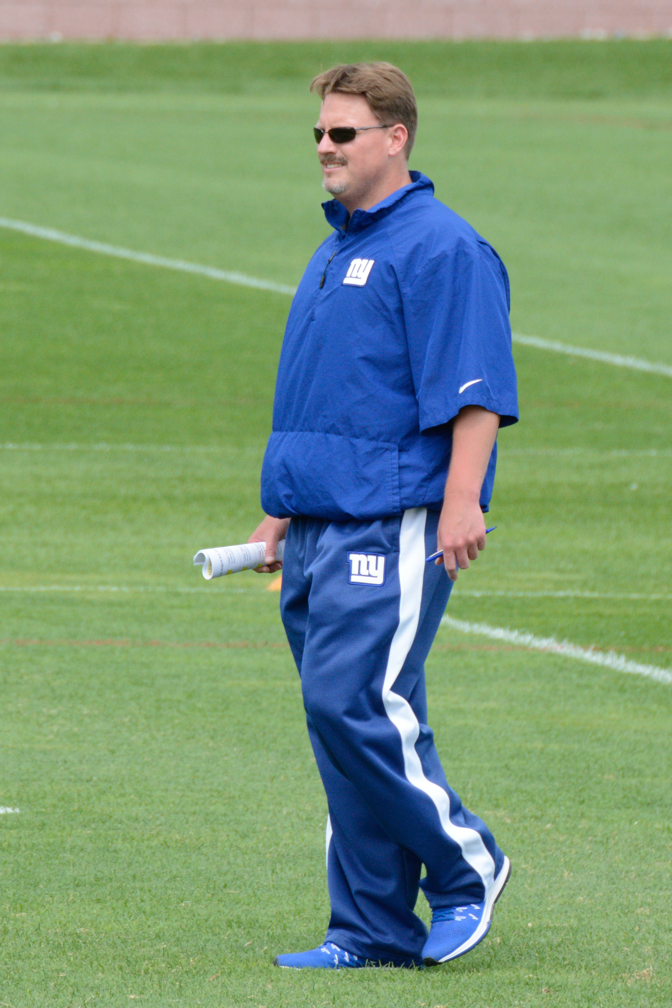 New York Giants training camp